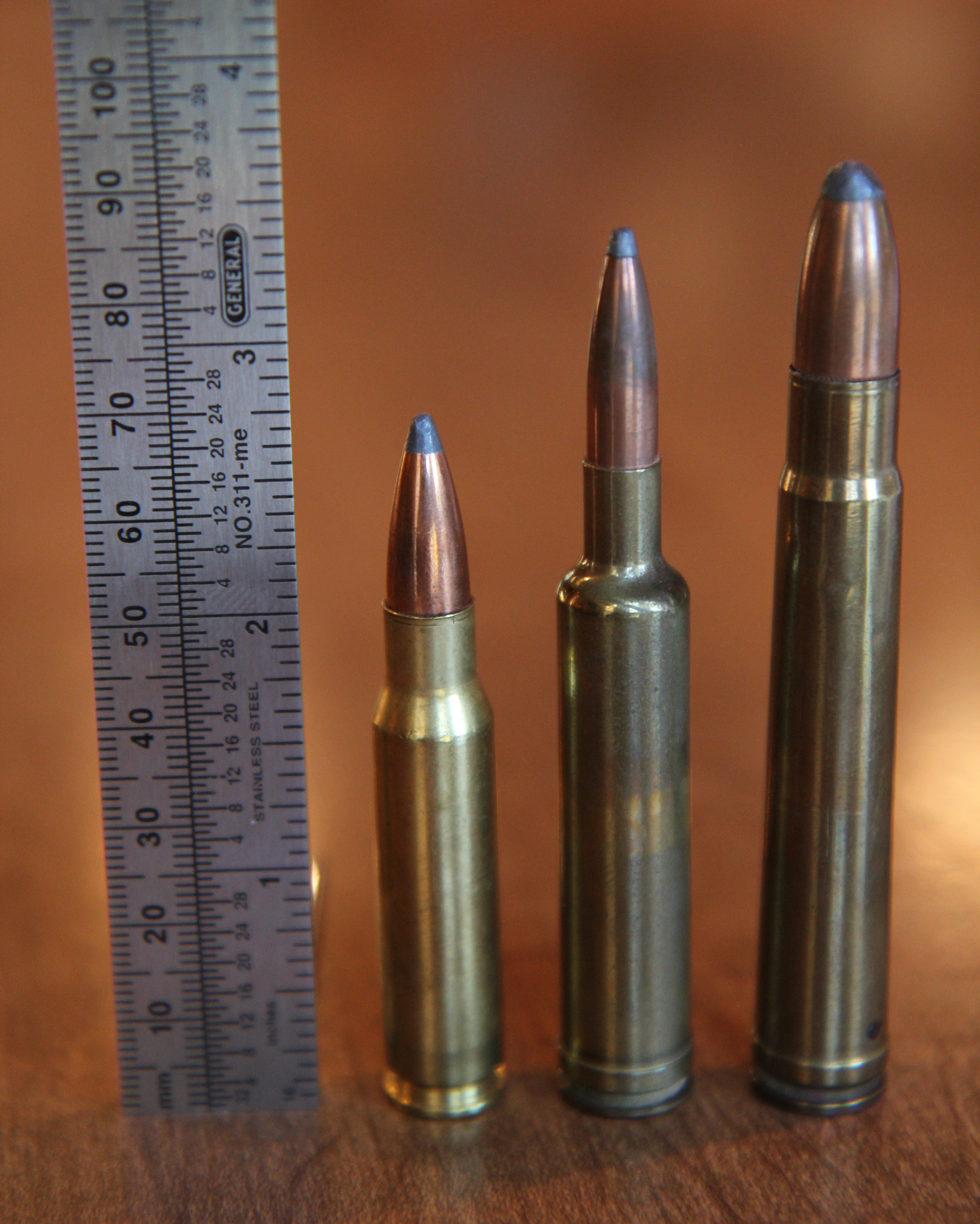 .257 Weathby Magnum cartridge (center) beside a metric/imperial ruler with a .308 Winchester cartridge (left) and a .375 Holland & Holland cartridge for comparison.